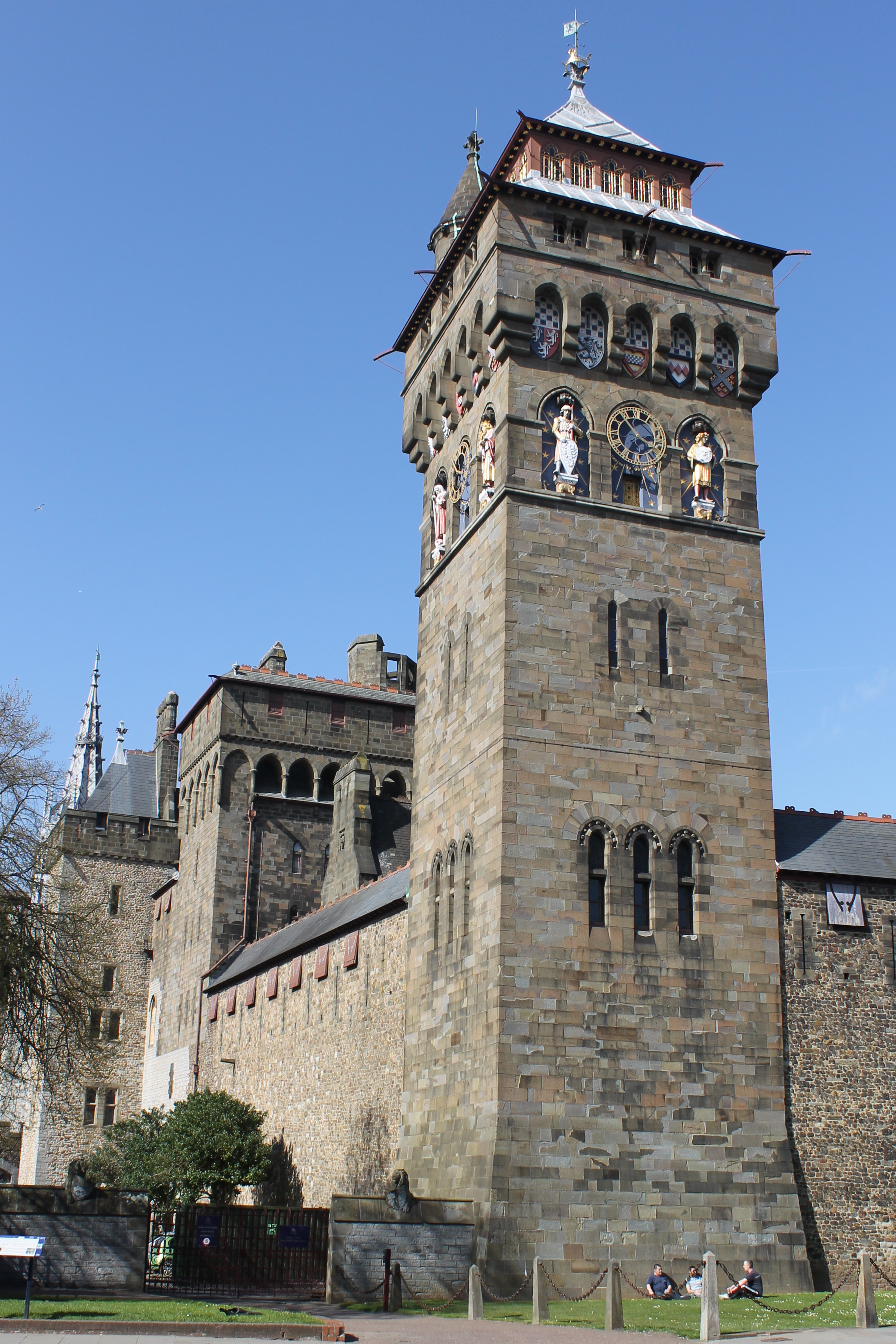 Cardiff Castle as seen from the West side.